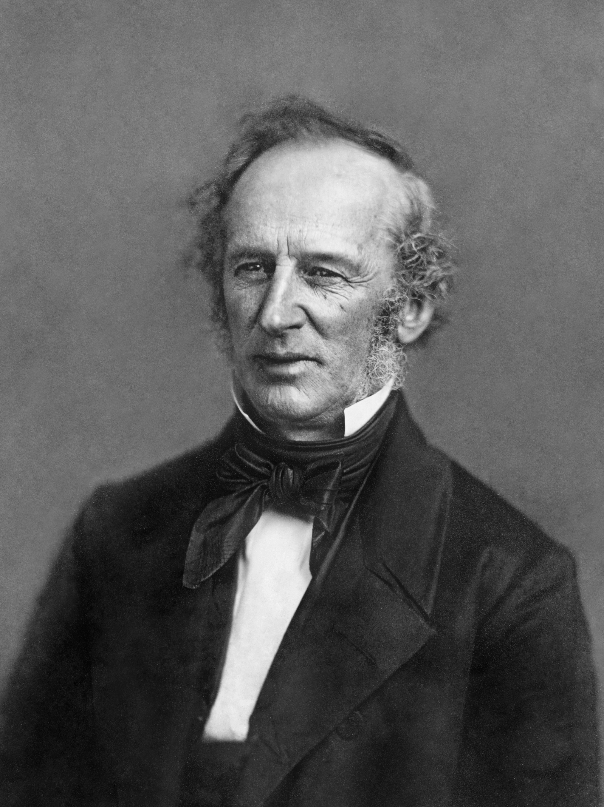 "Cornelius Vanderbilt, head-and-shoulders portrait, slightly to left, with side whiskers". Half plate daguerreotype, gold toned.